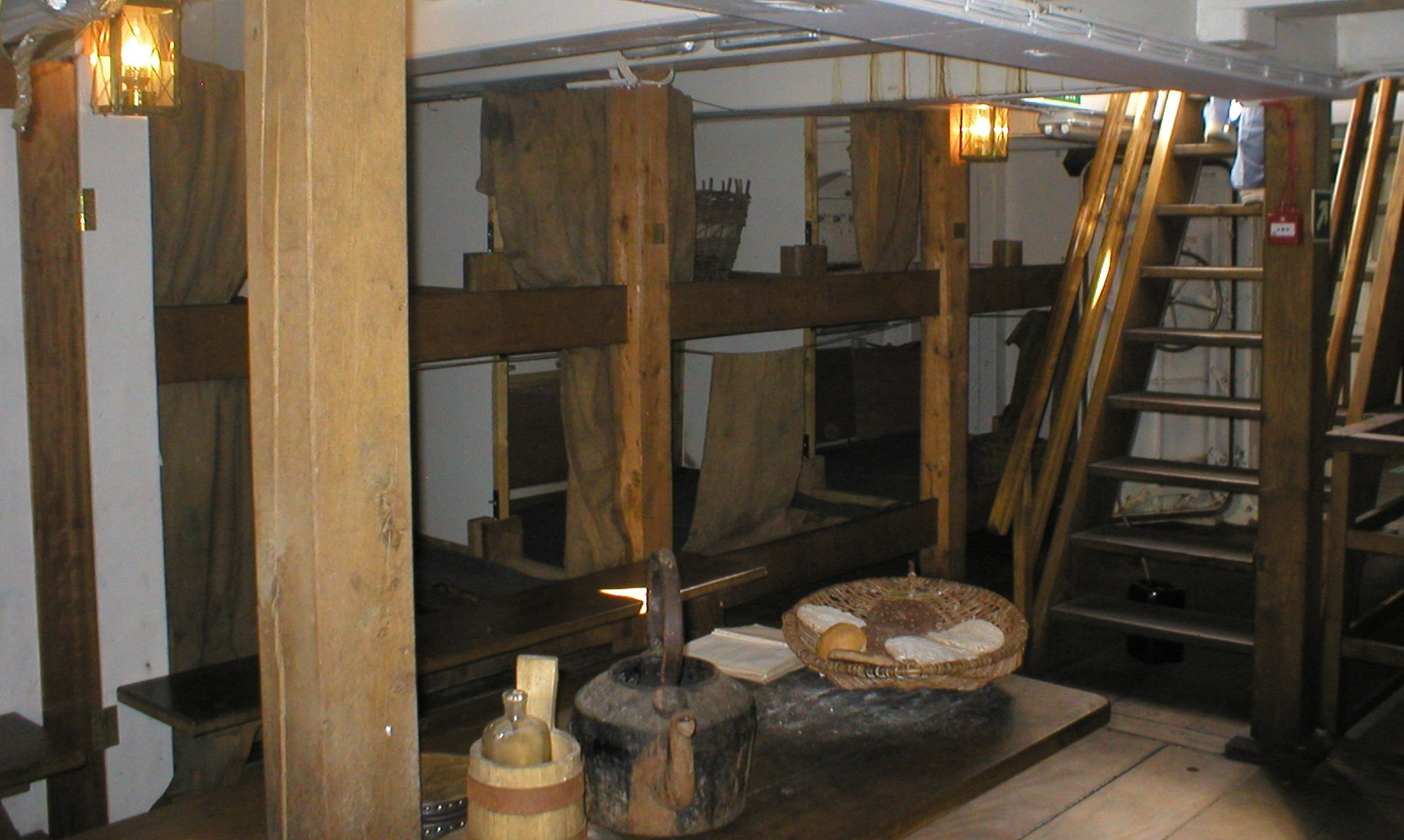 Dunbrody steerage accommodation